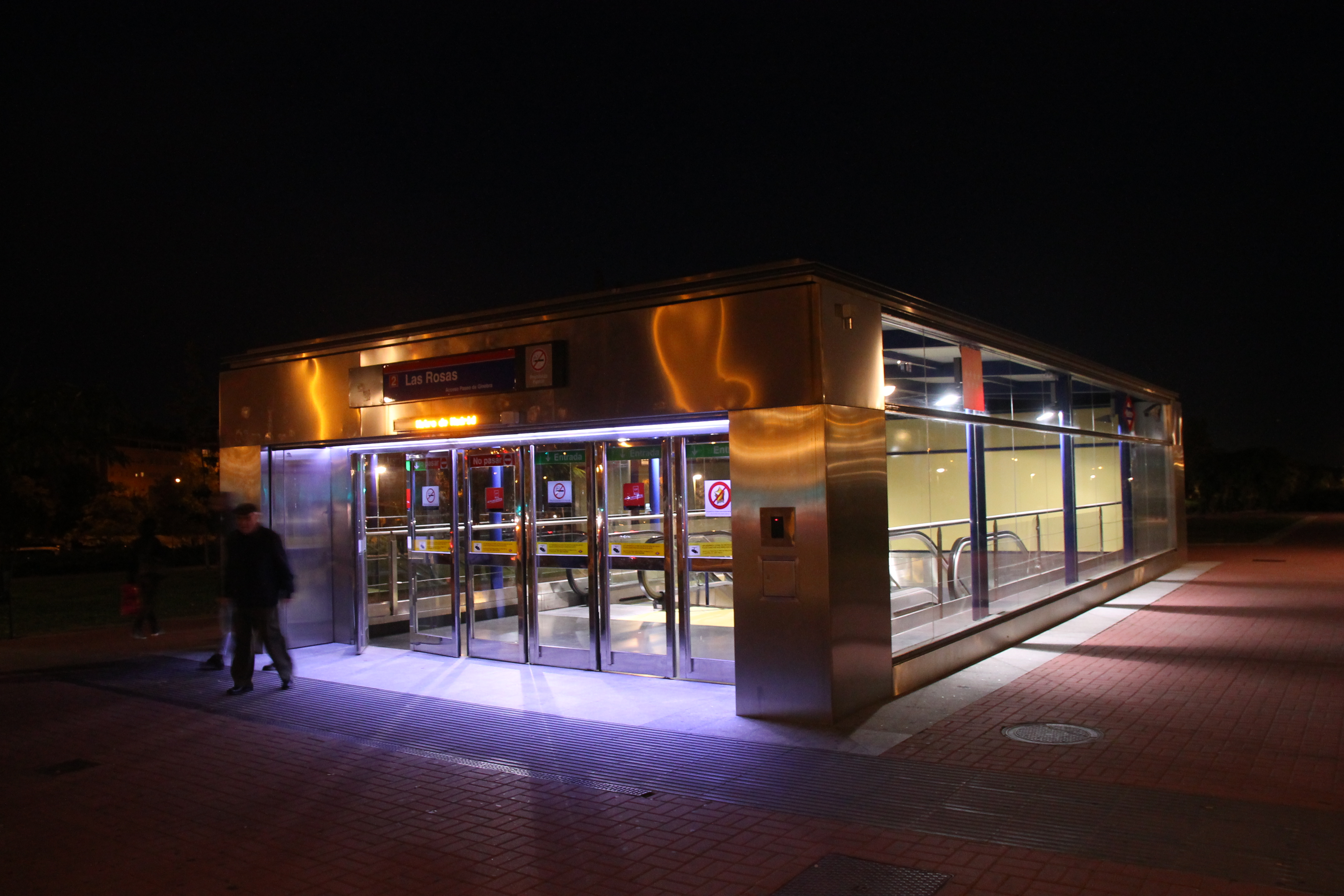 Estación de Las Rosas